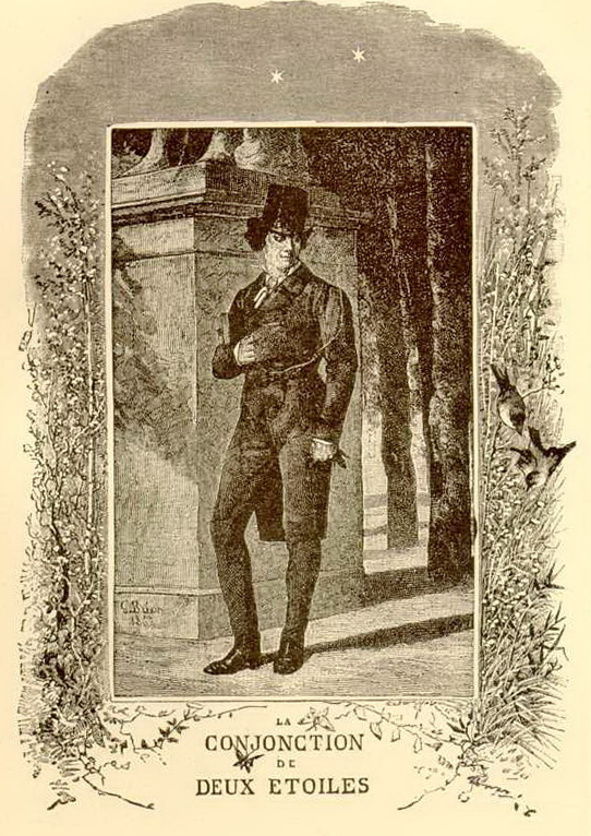 Marius sees Cosette for the fist time, illustration by Biron